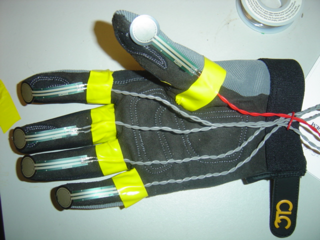 JTT-d kasutusel robotkäe loomisel